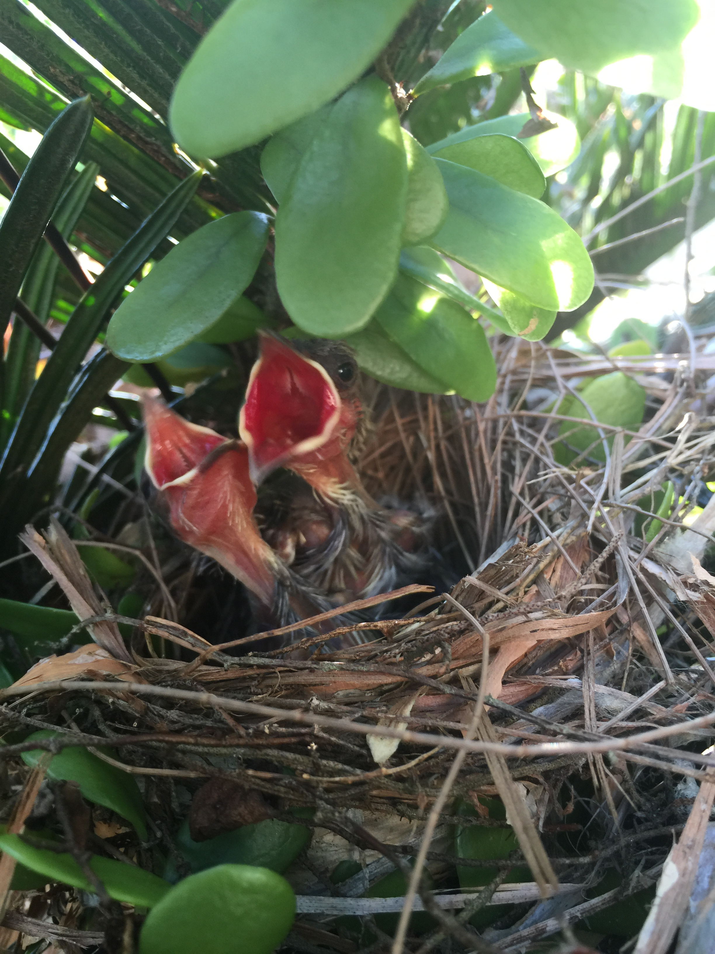 Chicks of yellow-vented bulbul